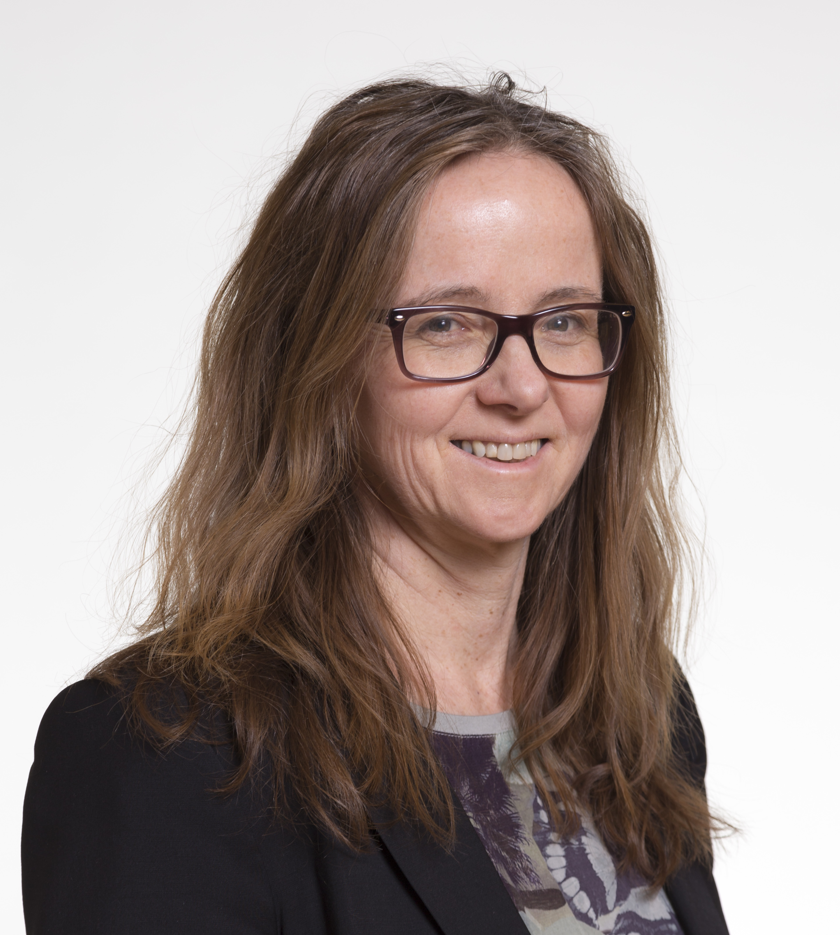 The Norwegian professor and dean at Norwegian University of Science and Technology (NTNU): Monica Rolfsen